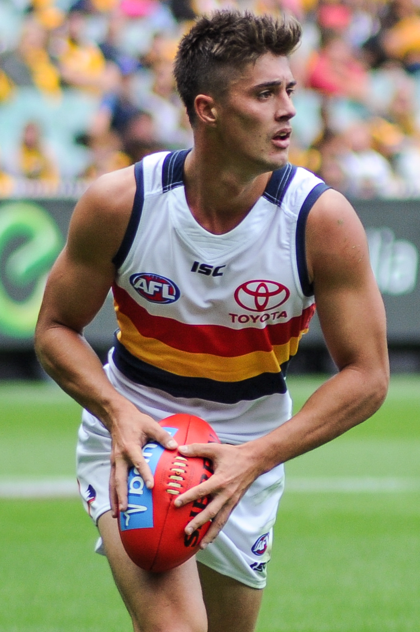 Riley Knight during the AFL round two match between Hawthorn and Adelaide on 1 April 2017 at the Melbourne Cricket Ground in Melbourne, Victoria.